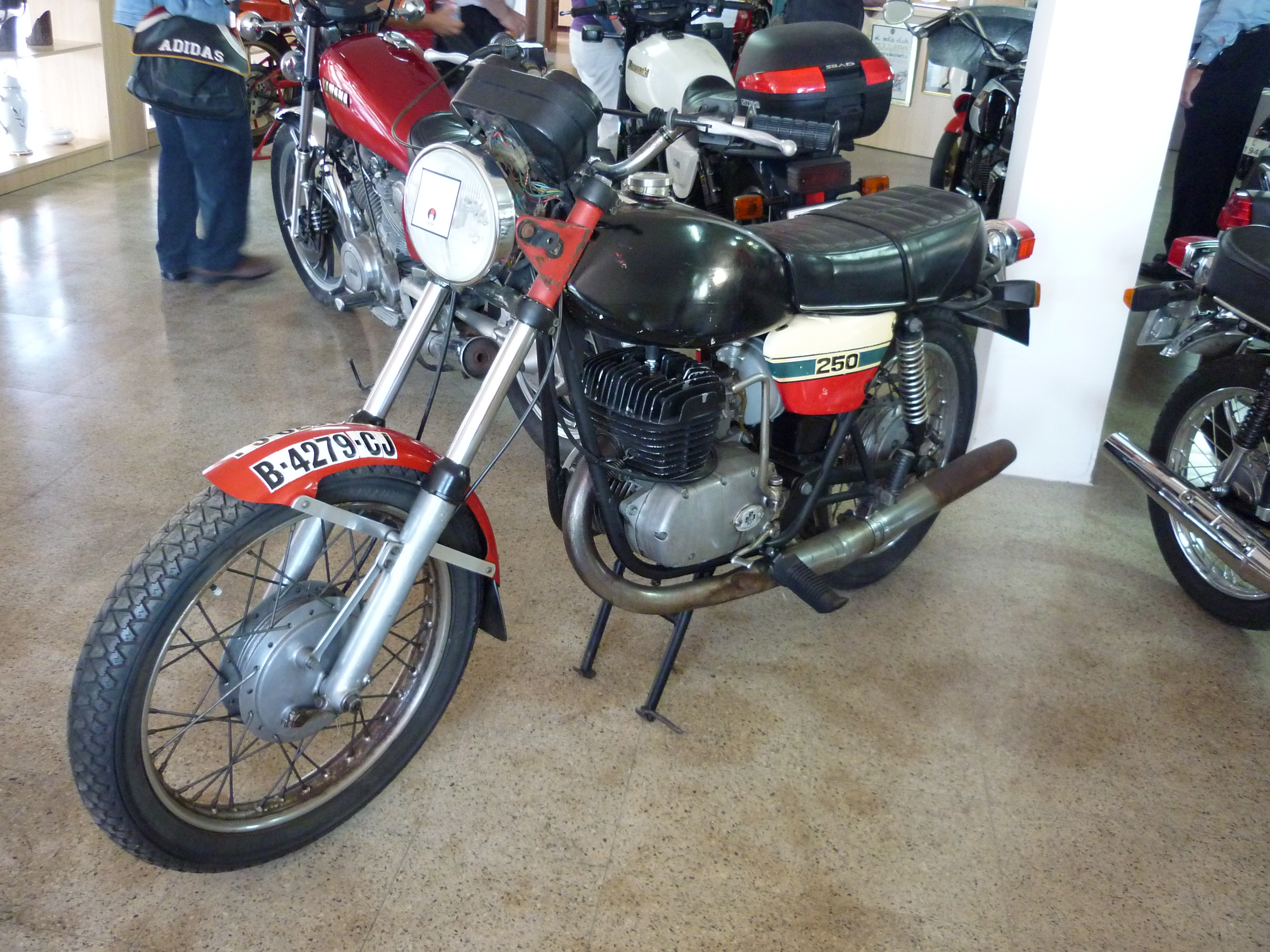 OSSA T 250cc 1975. Its tank was originally white, red and blue as well as the filter protection.Isern Motorcycle Museum, Mollet del Vallès (Catalonia).